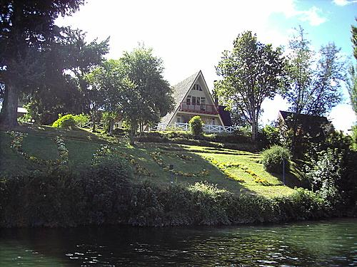 I took this photo